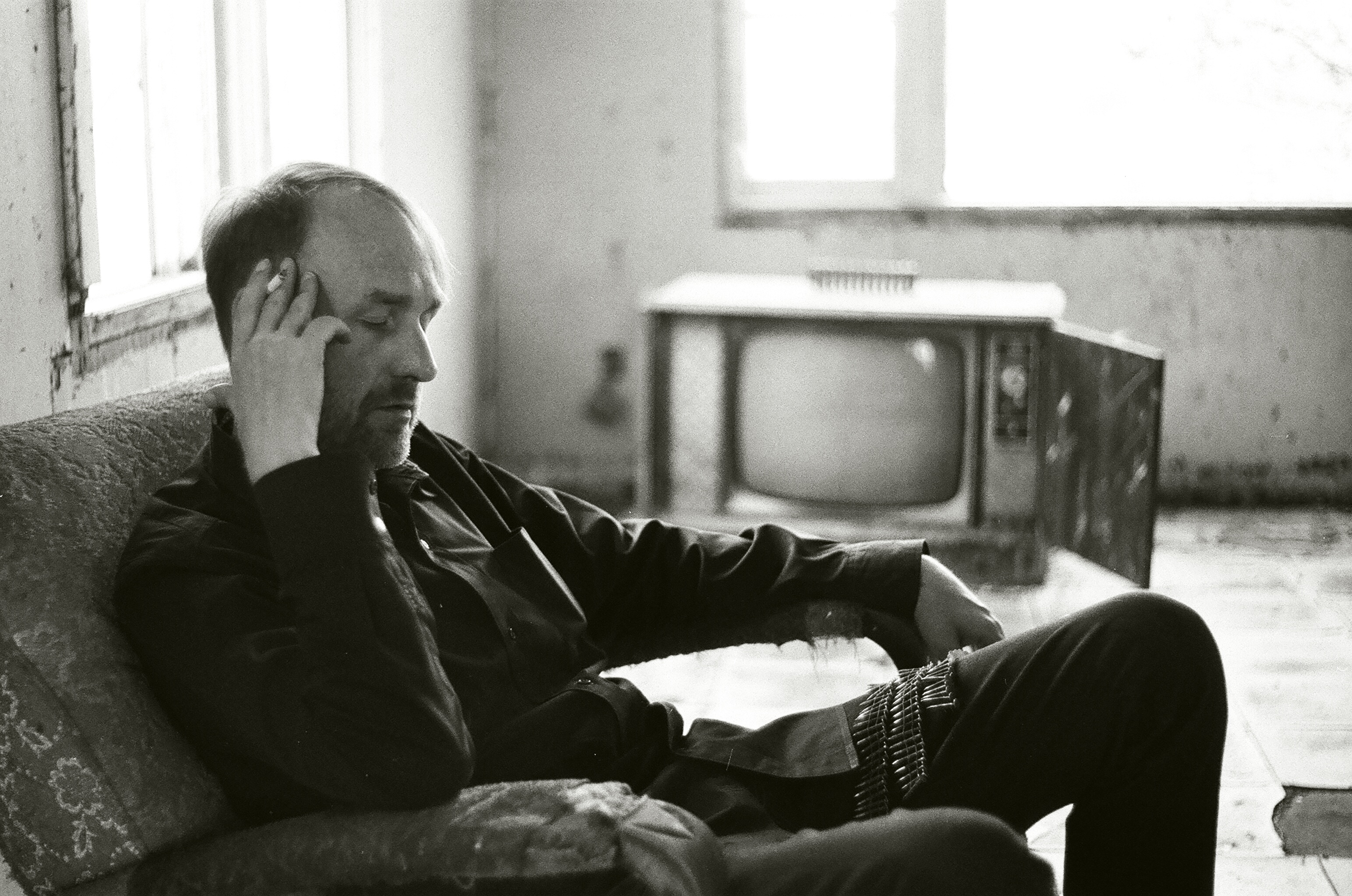 Photo taken by Dylan Bodner